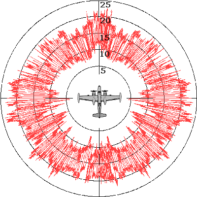 Radar cross-section diagram example